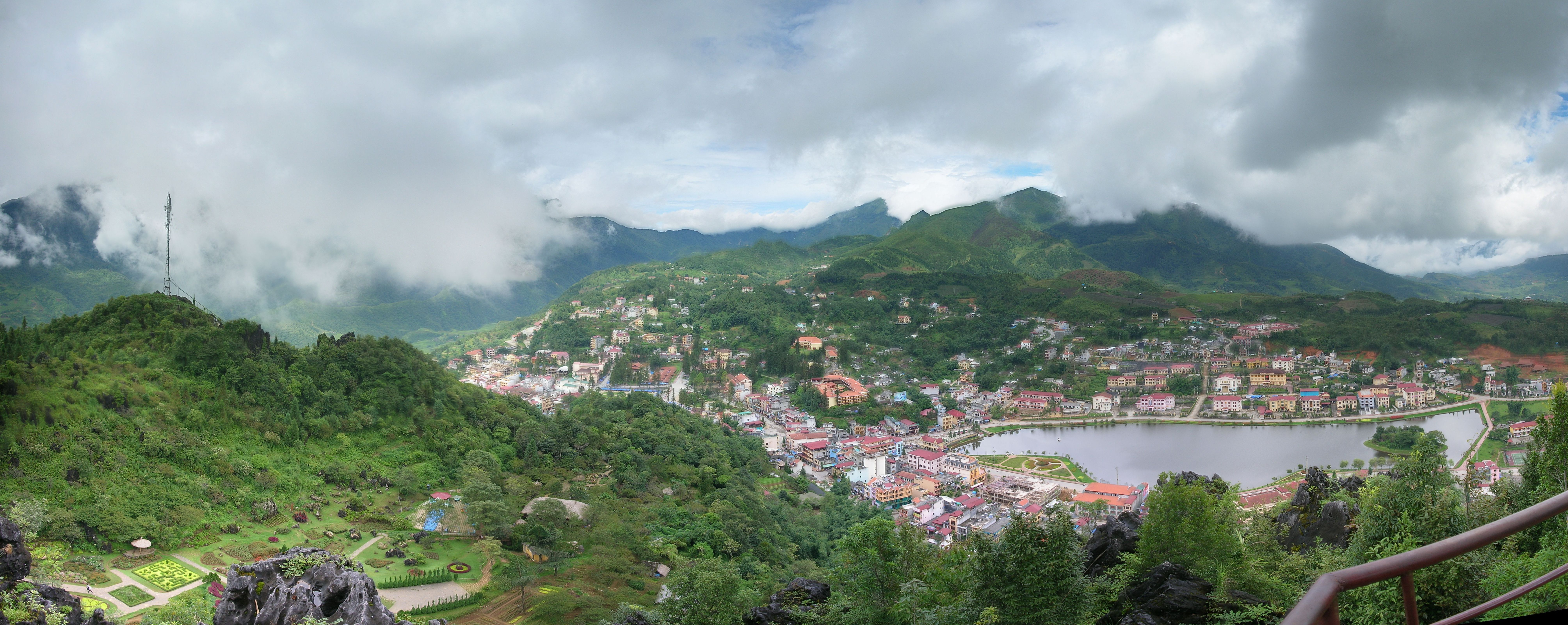 Sa Pa view from Ham Rong mountain in Viet Nam.